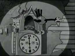 Cuckoo clock as seen in the 1930 animated cartoon "The Cuckoo Murder Case" by Ub Iwerks.